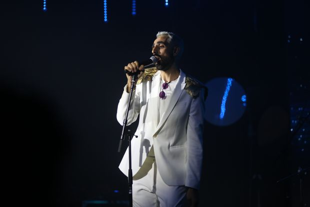 Bashar Murad Performing at Palestine Music Expo 2019 in Ramallah, Palestine